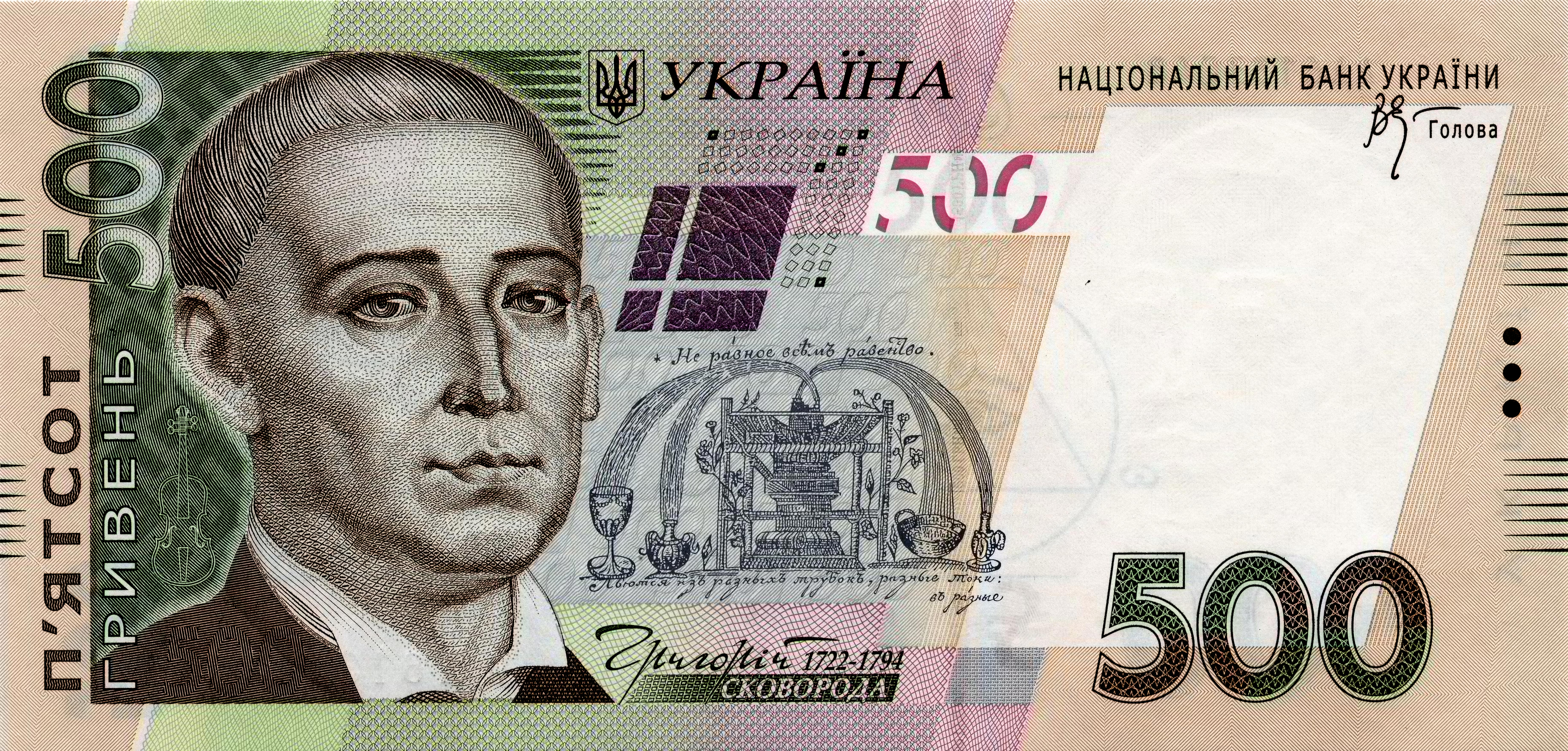 Bank note of Ukrainian currency 500 hryvnia, front side (Portrait of Hryhoriy Skovoroda)